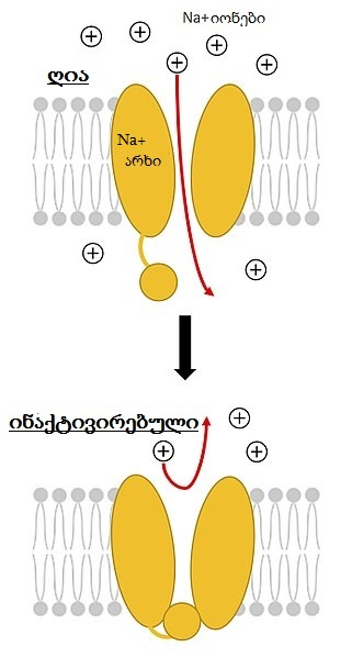 Cropped from File:Poneratoxin schematic.tif.